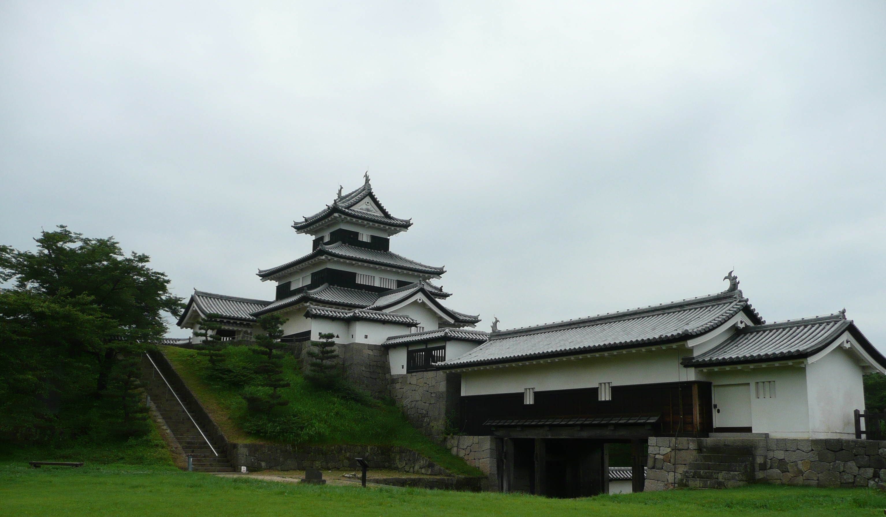 白河小峰城